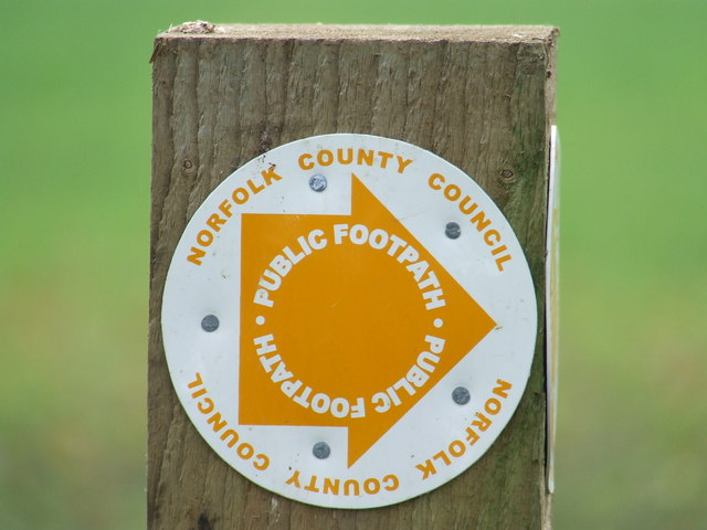 Norfolk County Council Norfolk County Council footpath post near to Thorpe Abbotts Norfolk.